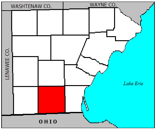 Originally made by the US Census. I modified it to highlight the township.